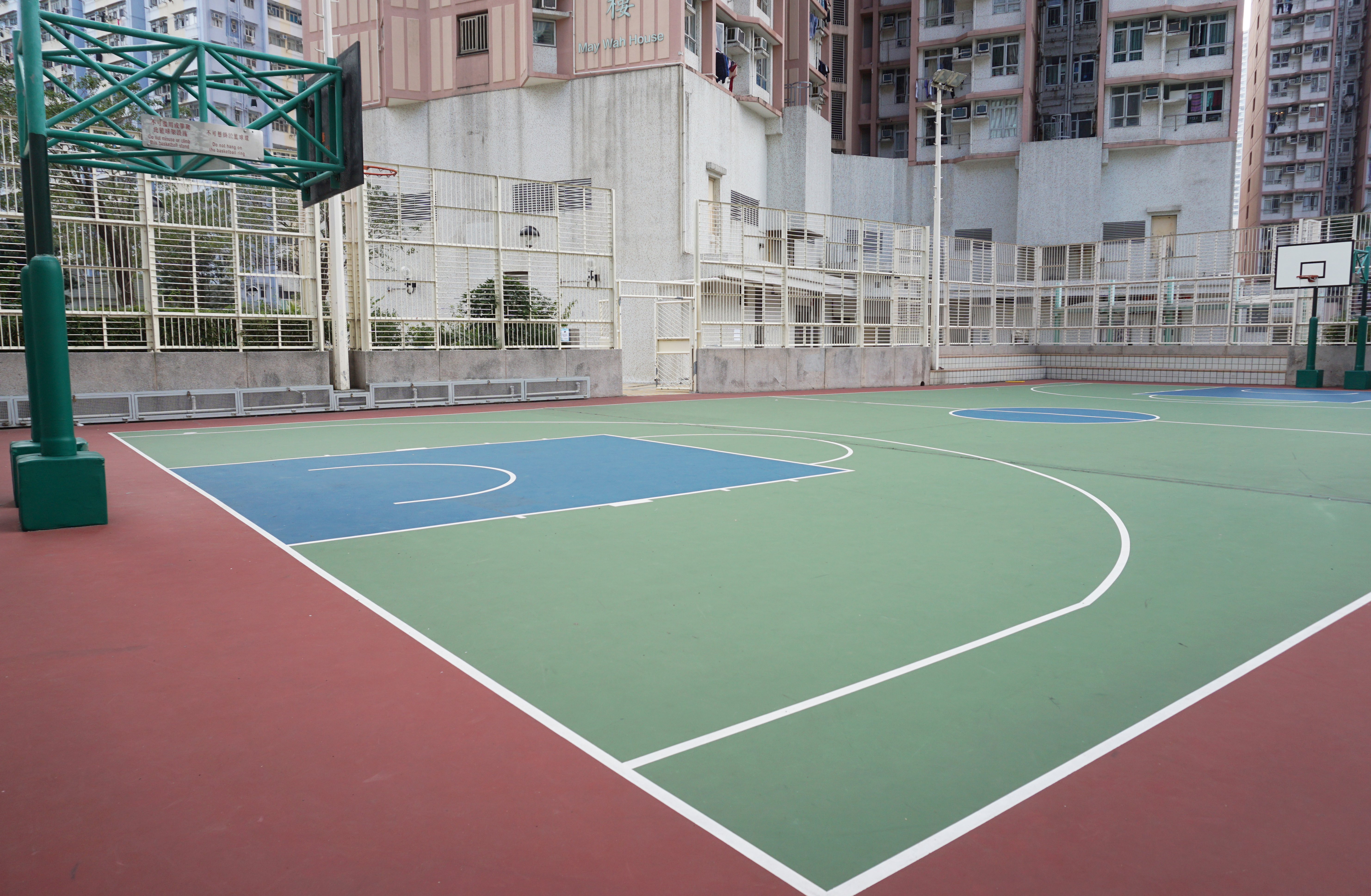 Hing Wah (I) Estate in Chai Wan, Hong Kong.